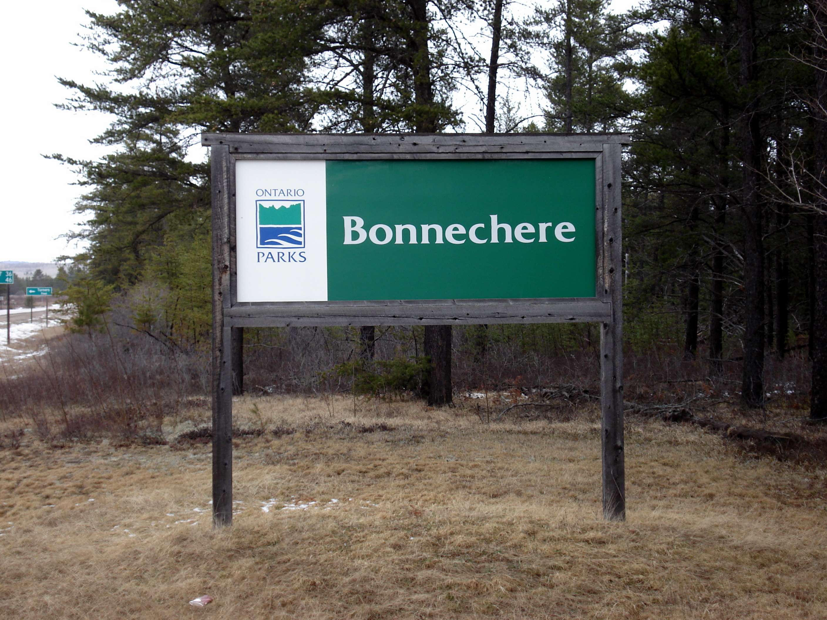 Welcome sign at Bonnechere Provincial Park